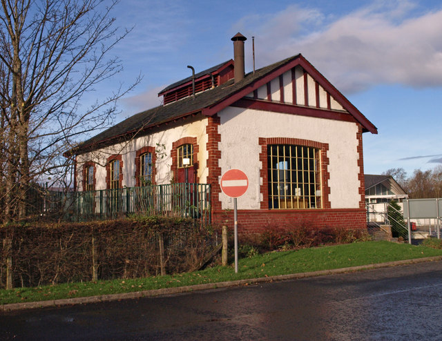 Winchhouse, Balloch 1902 Winchhouse housing the original 1902 steam engine and winch gear. 1958 boiler refurbished 2006.